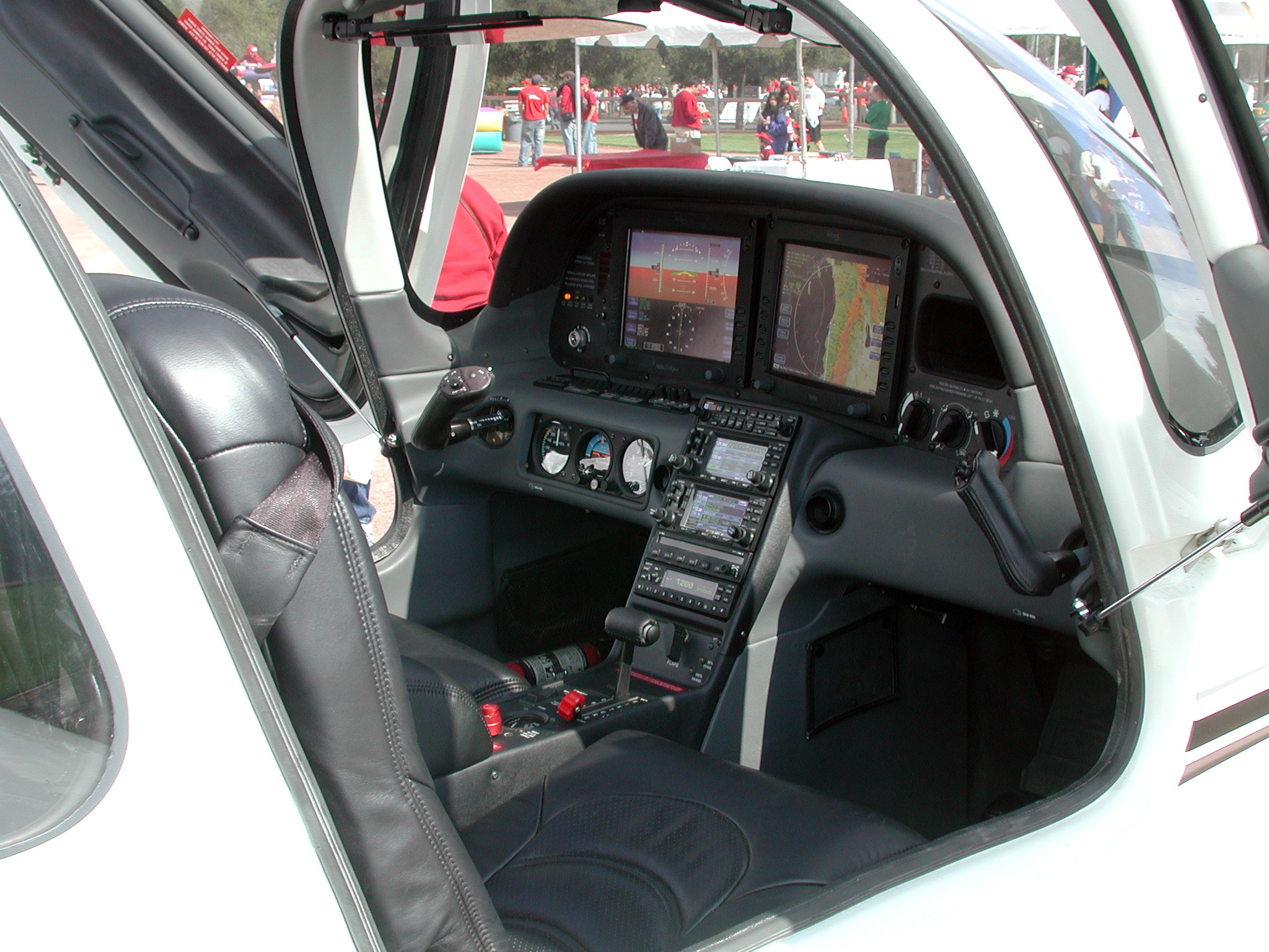 Cirrus SR22-GTS demo aircraft being shown at Stanford game (